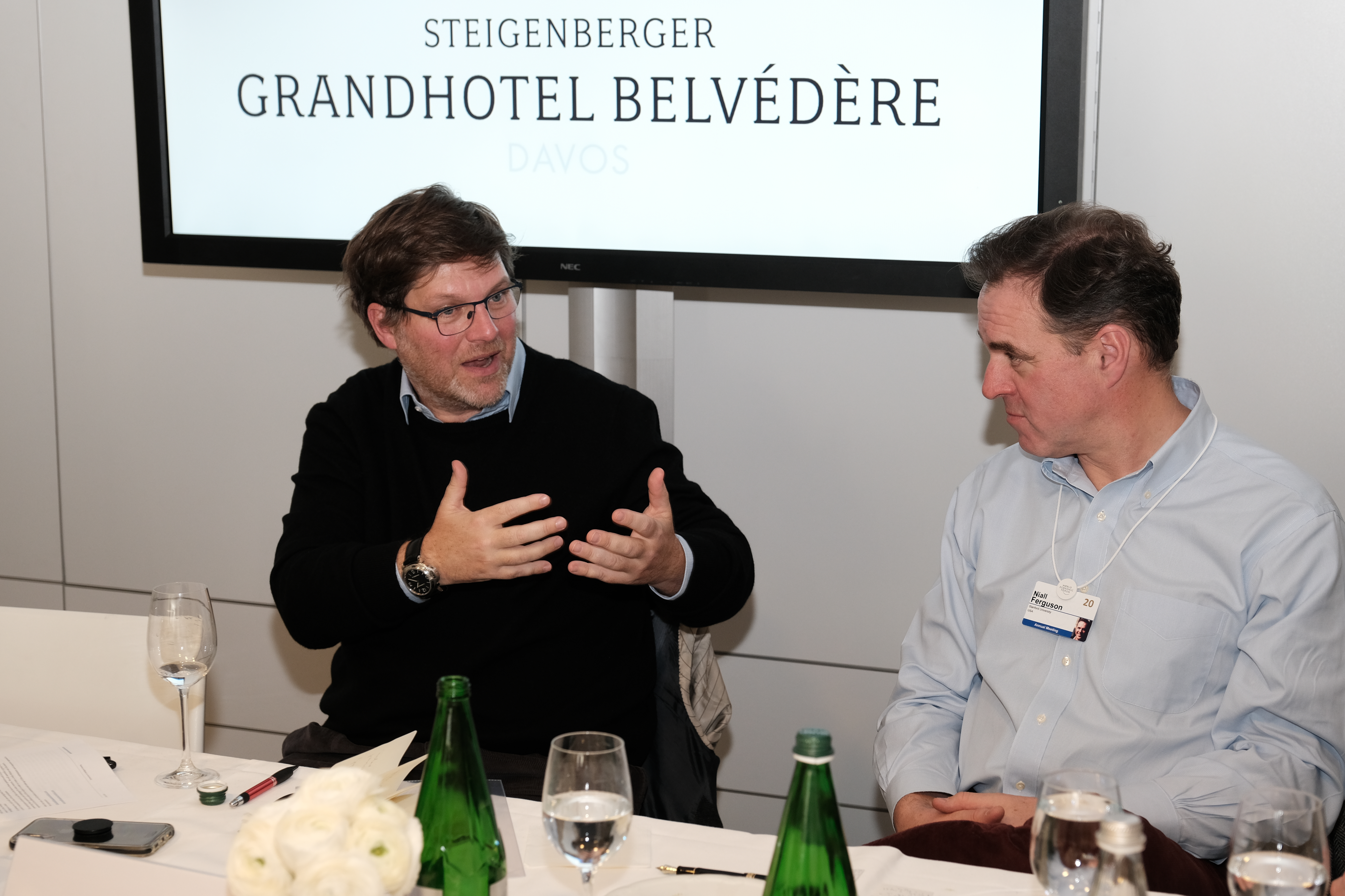 Guy Spier speaks with Niall Ferguson during the World Economic Forum